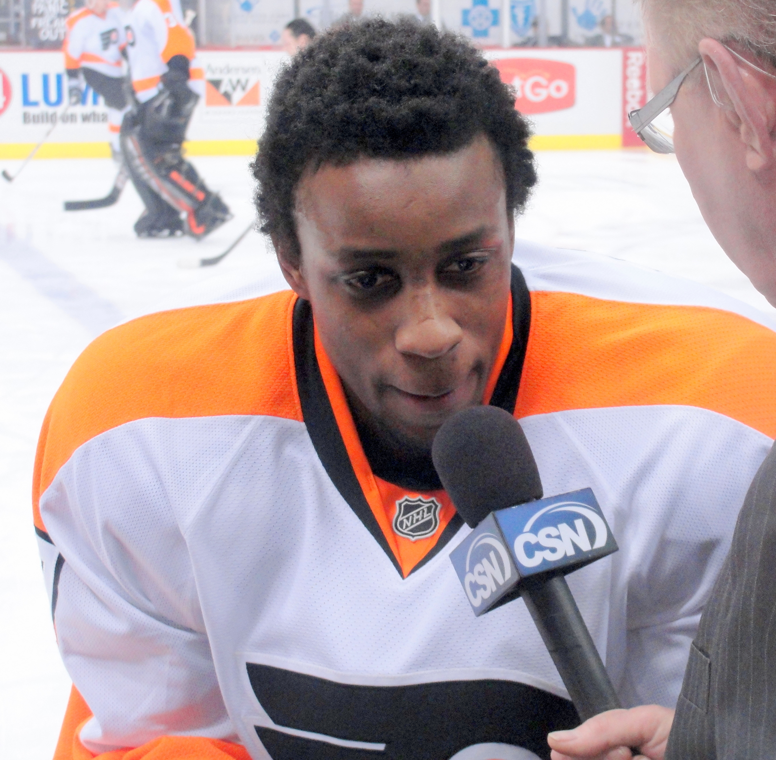 Philadelphia Flyers forward Wayne Simmonds is interviewed prior to an April 20, 2012 playoff game against the Pittsburgh Penguins at Consol Energy Center in Pittsburgh, PA.